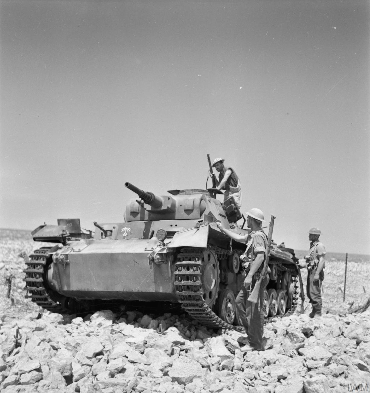 The British Army in North Africa 1941 British soldiers inspecting a captured German PzKpfw III tank, 2 May 1941.